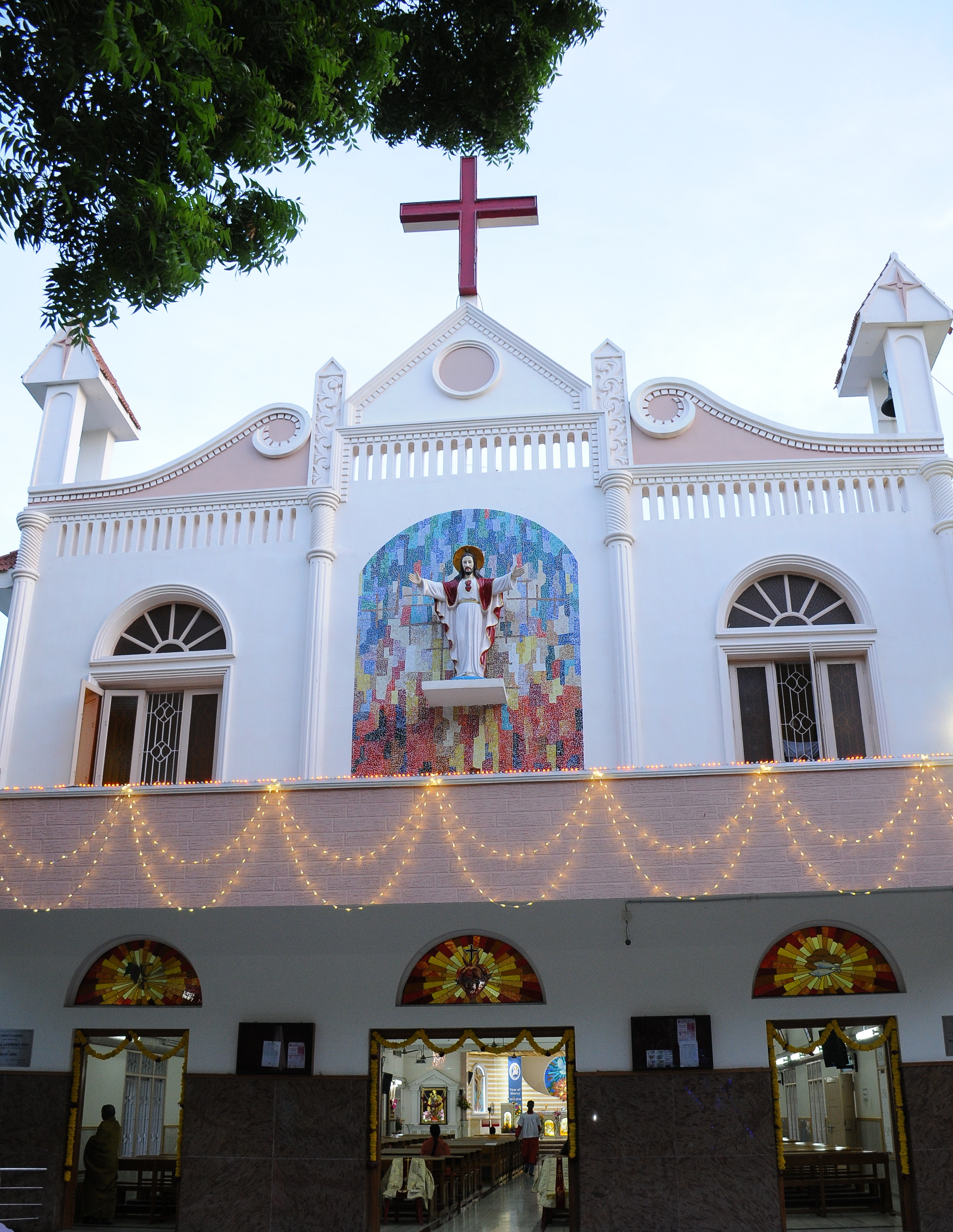 St.Anne's Church Nesapakkam